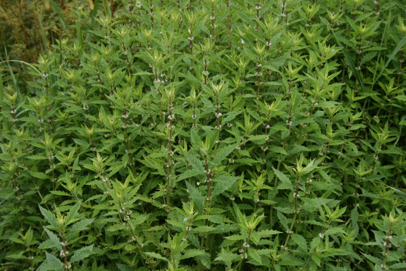 Lycopus europaeus: Habitus